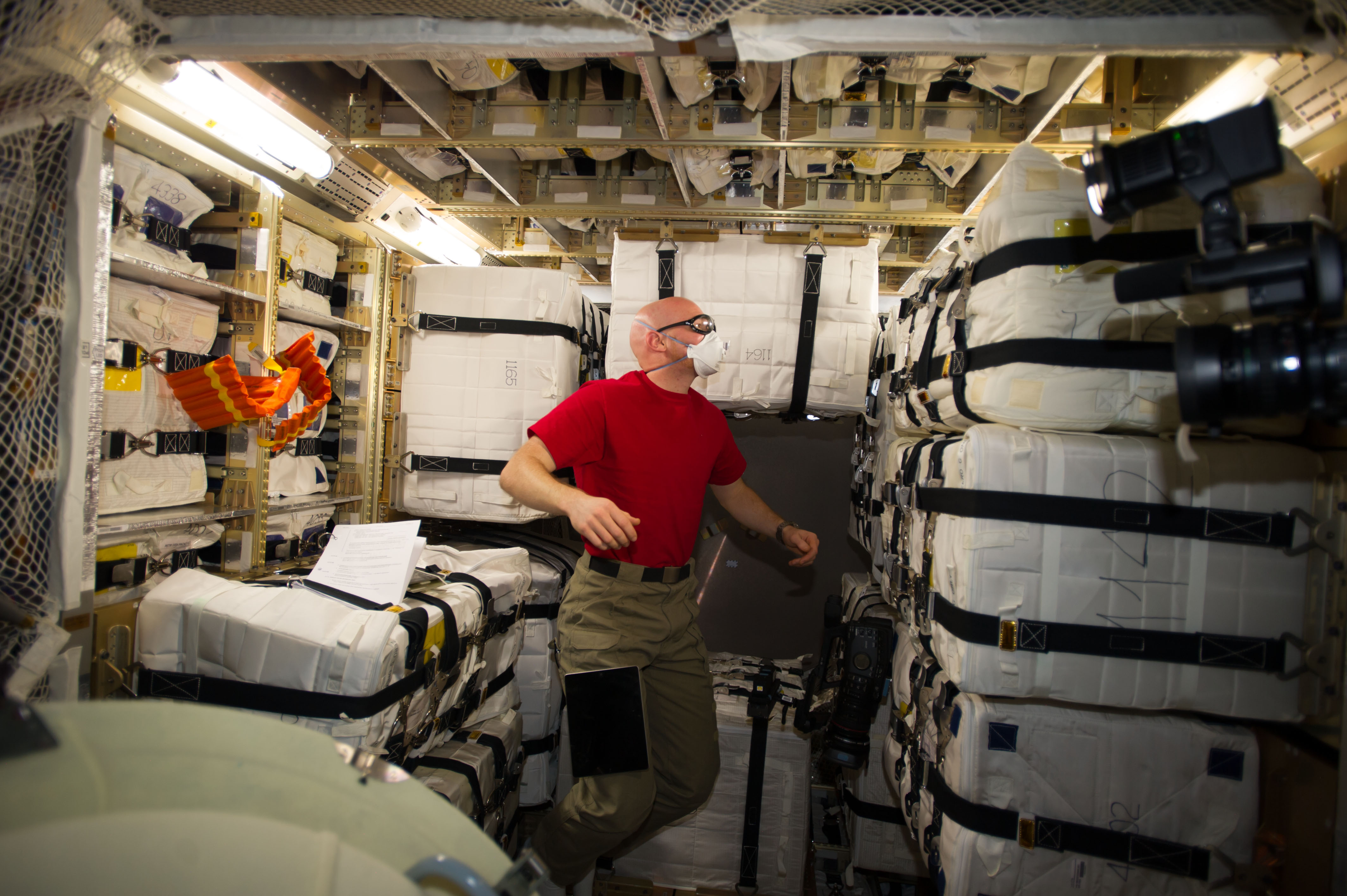 European Space Agency astronaut Alexander Gerst, Expedition 40 flight engineer, is pictured in the newly-attached "Georges Lemaitre" Automated Transfer Vehicle-5 (ATV-5) of the International Space Station.